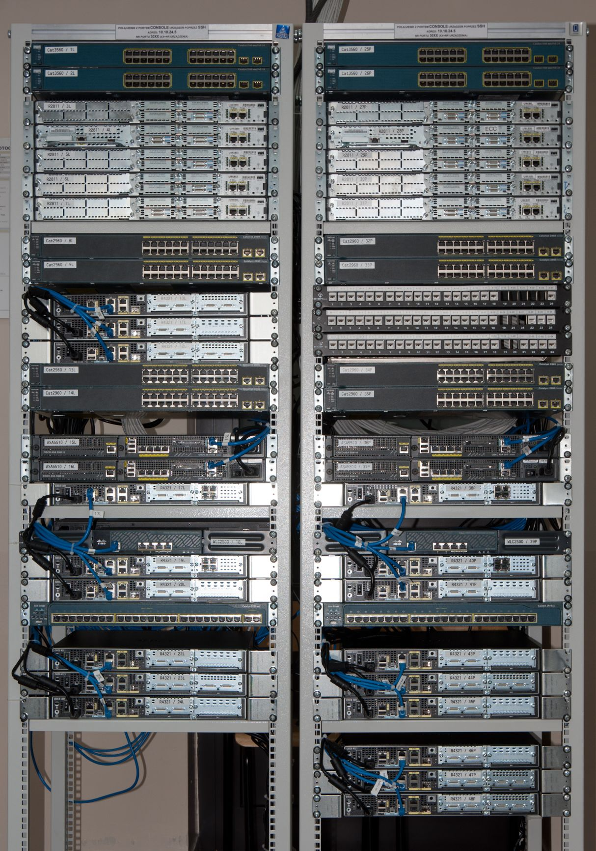 Network Hardware in the Institute of Applied Computer Science